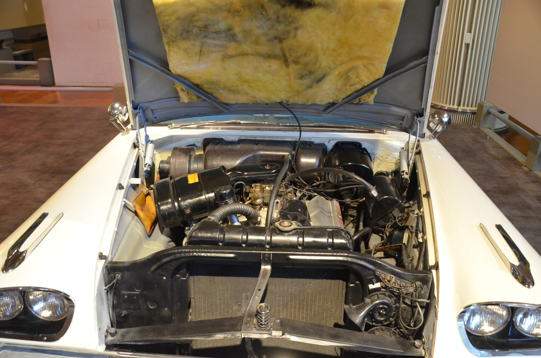 For about 6 weeks in January and February, the Henry Ford museum in Dearborn, Michigan opens the hoods on about 50 of it's iconic vehicles. Here is a photo of one of the vehicles on display.